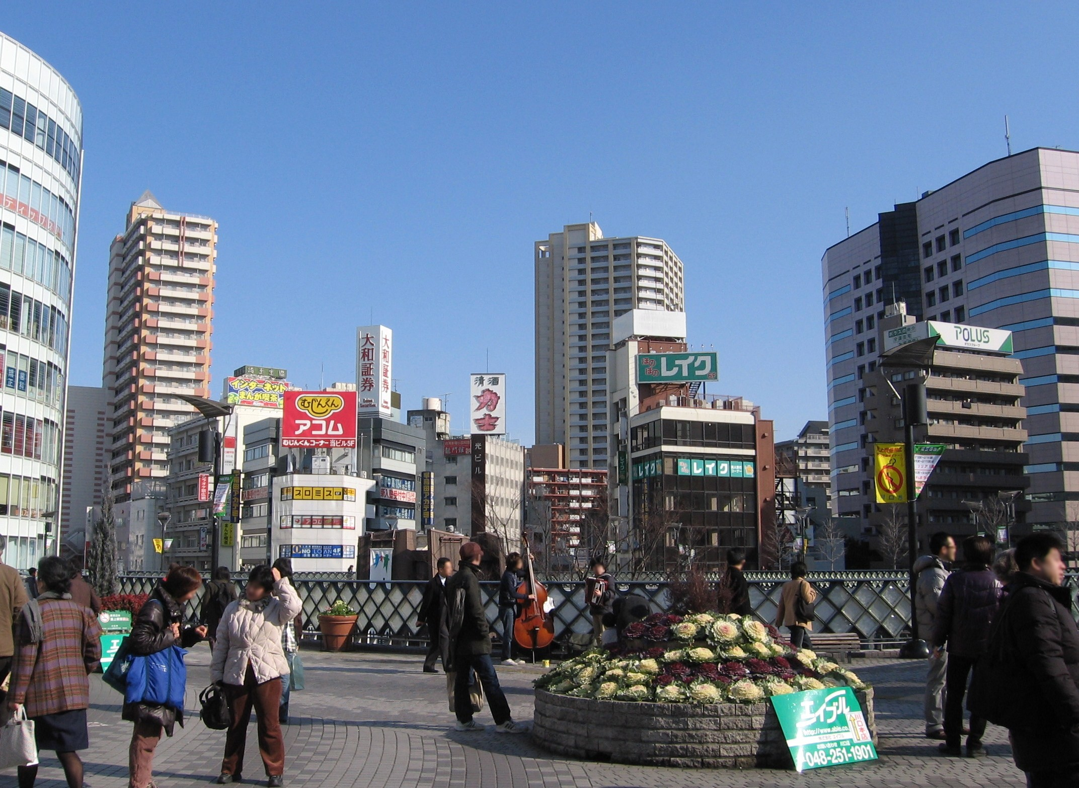 this is the view of in front of KawagutiStation,Japan which is also the scenery of Honcho,Kawaguchi,Japan.